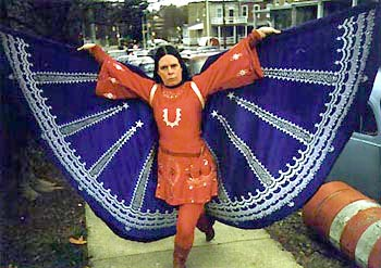 Suzanne Muldowney in her handmade Underdog costume, photo by Scott Huffines